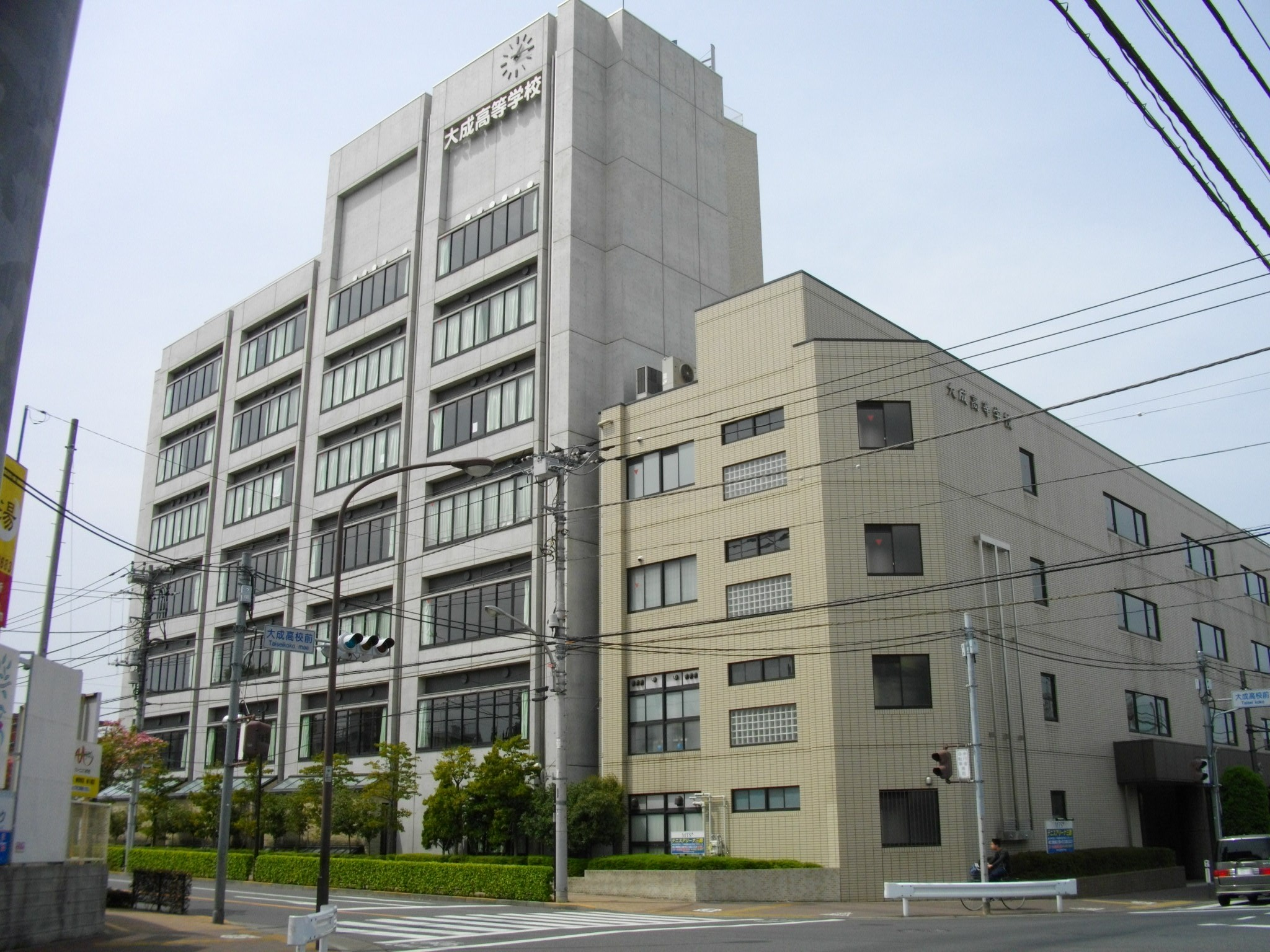 Taisei High School(Mitaka)